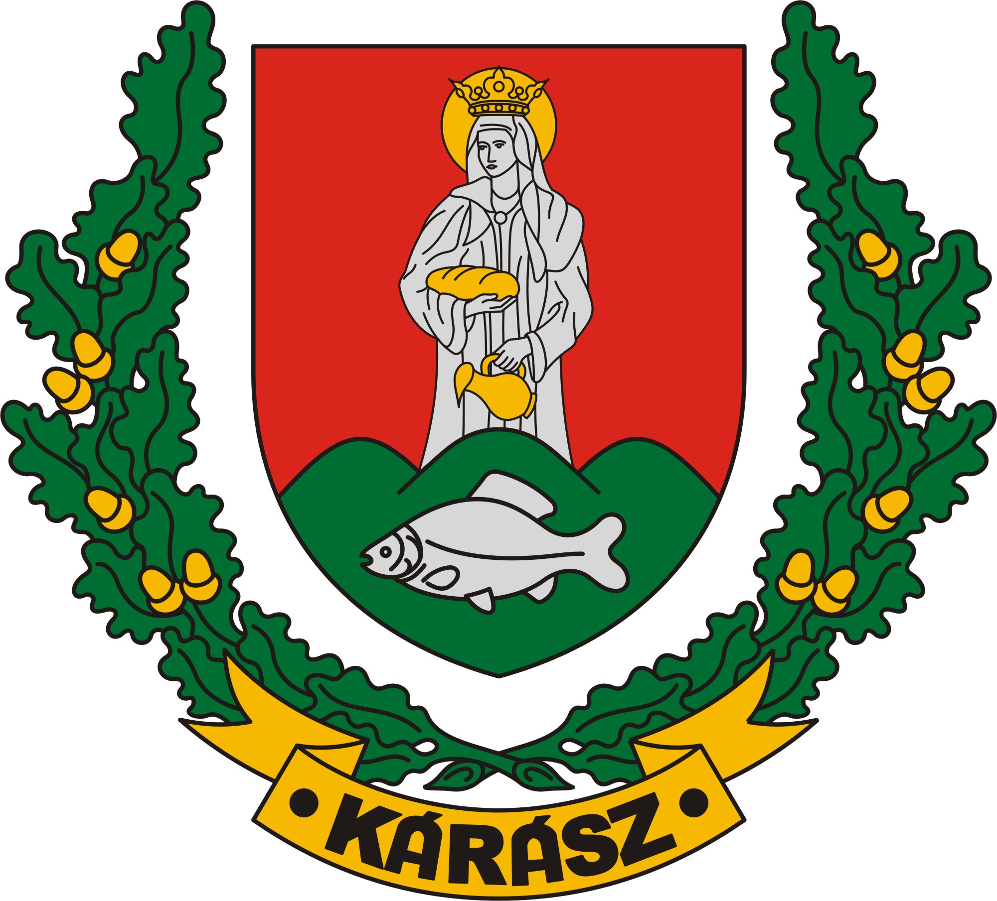 Coat of arms of Kárász, Hungary